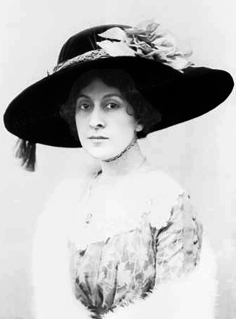 Anonymous photograph of American pianist Augusta Cottlow (1878—1954)